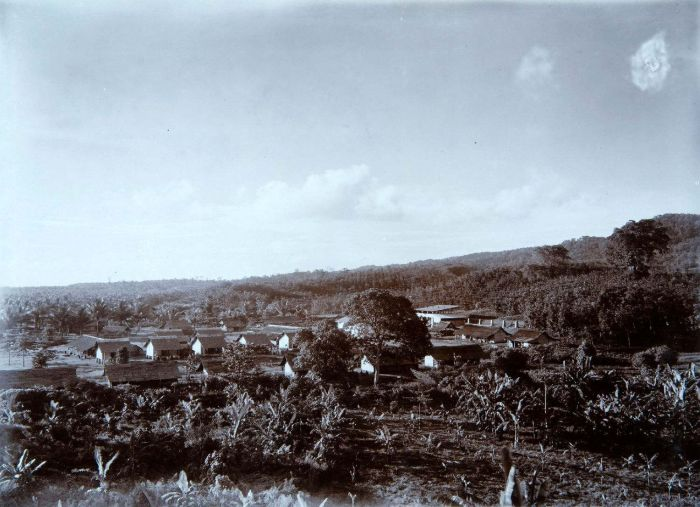 The 'Tjikoedjang' plantation